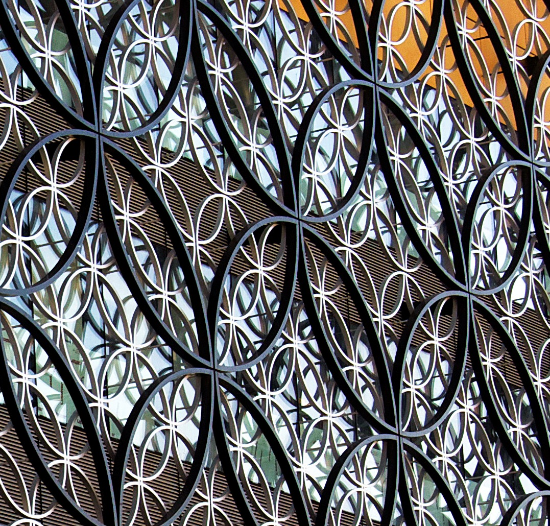 Detail from File:Library of Birmingham Facade.jpg